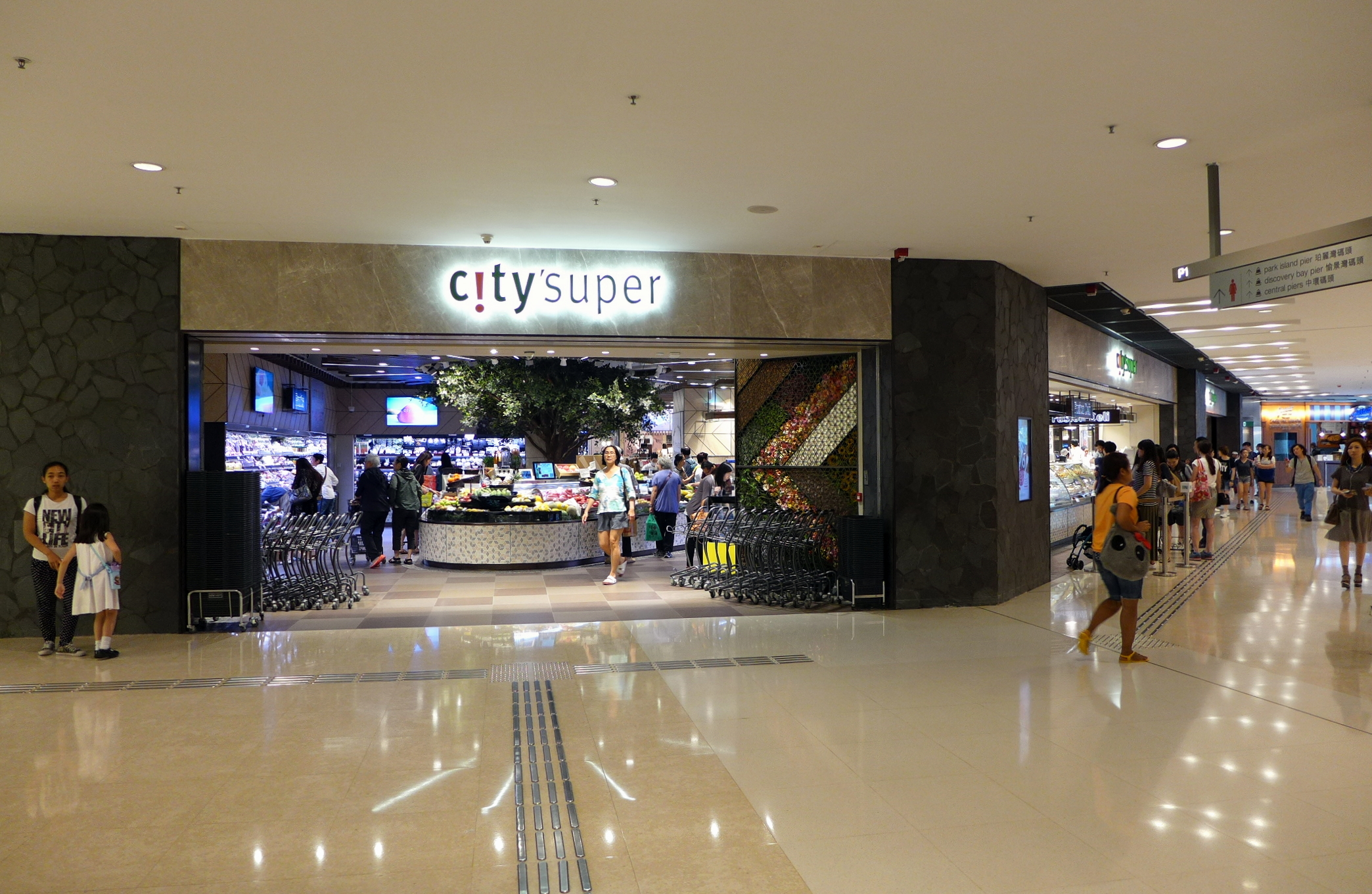 ifc store Citysuper